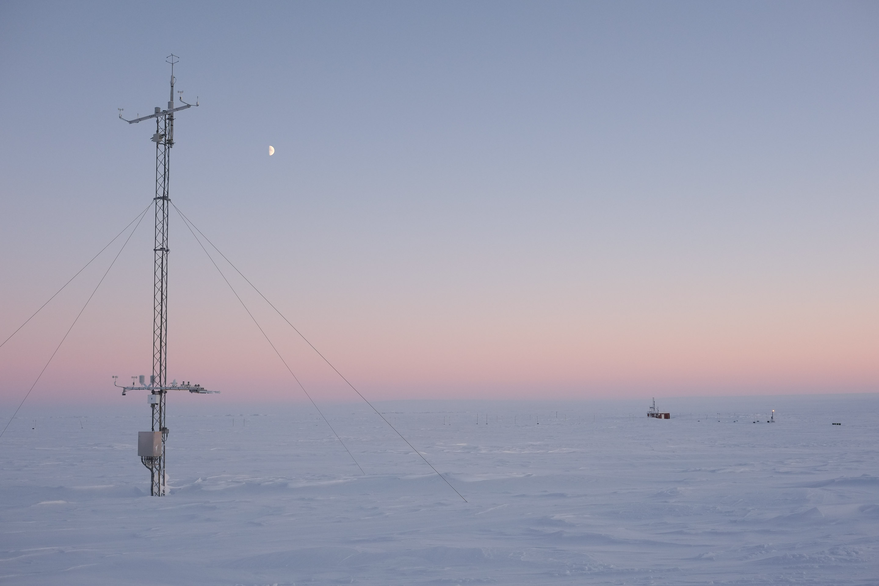 Atmospheric measurement mast for measuring fluxes between atmosphere and surface. Here the surface is 2m deep snow 900km from North pole in Station Nord, temperature was -35C. The light source is the first rays of long waited sun after 5 month of absence. Photo was exposed for 1/220sec, focal length 27mm, fnumber 5.6, the make was Fuijifilm.